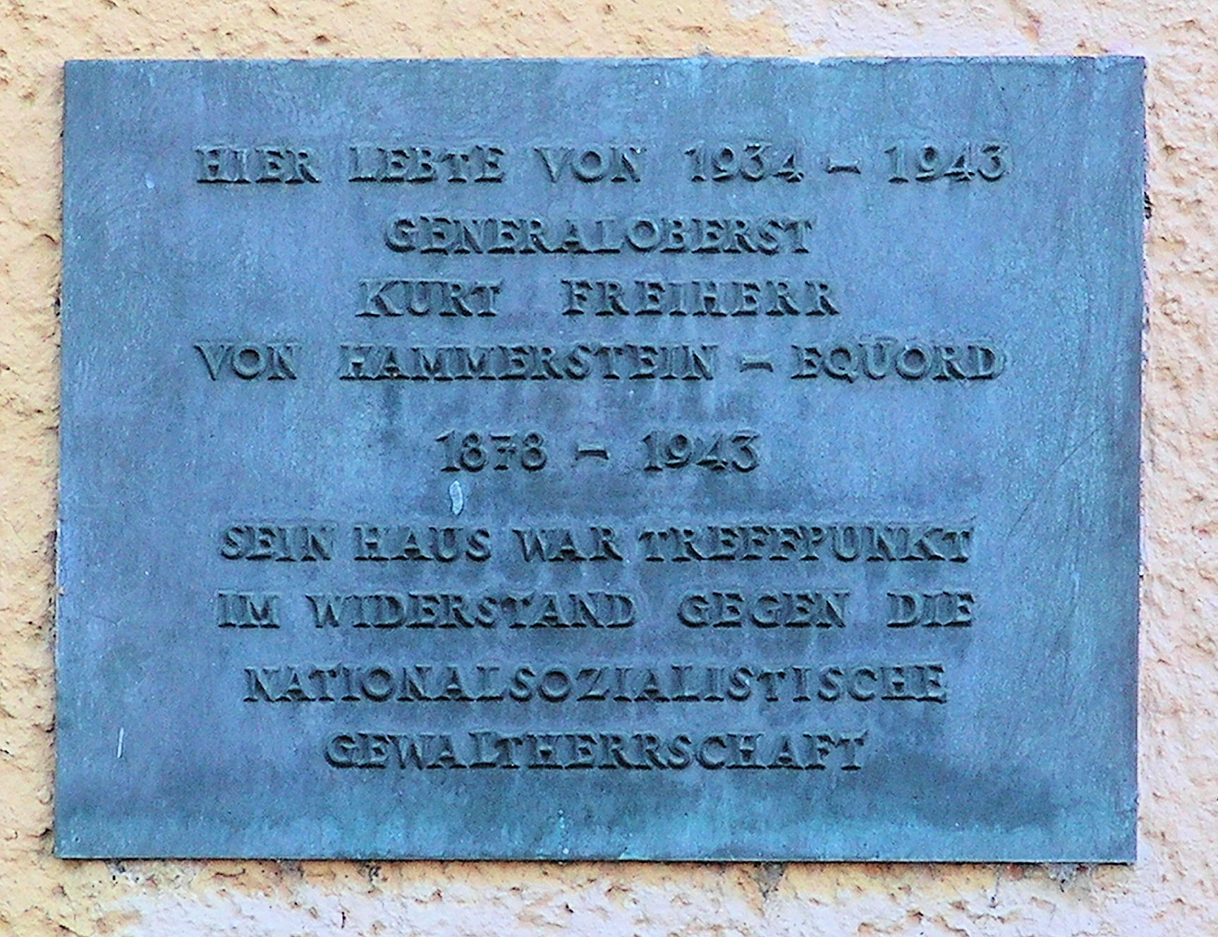 Memorial plaque, Kurt Freiherr von Hammerstein-Equord, Breisacher Straße 19, Berlin-Dahlem, Germany